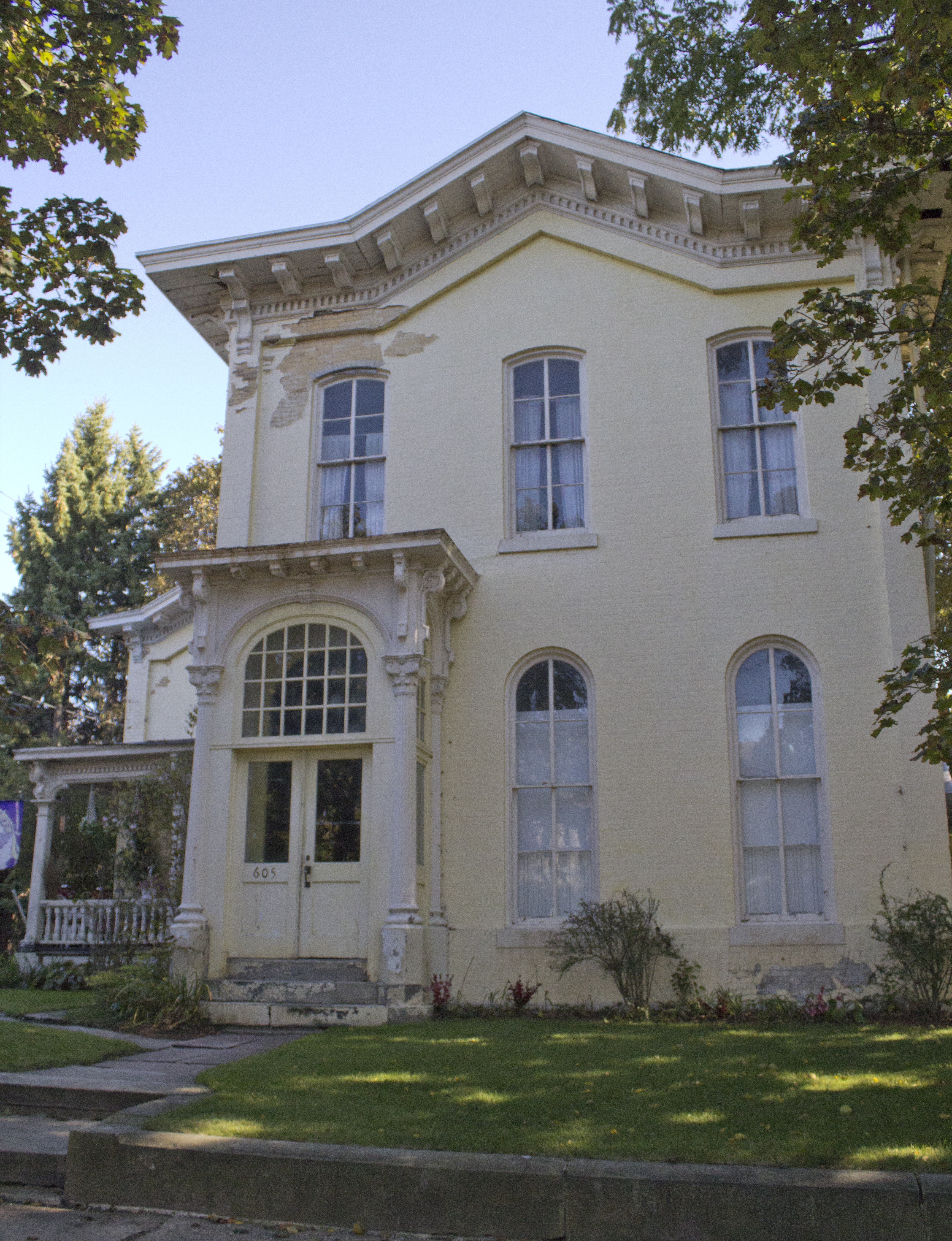 Thayer-Thompson House Front View of the Thayer-Thompson house